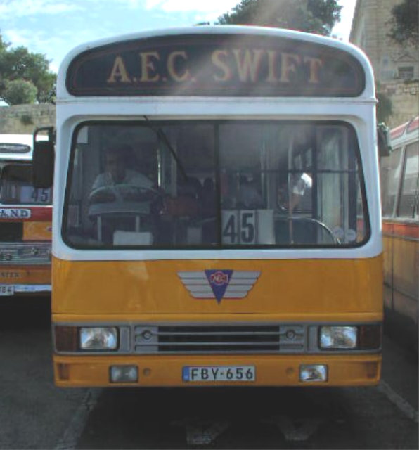 AEC Swift bus in Malta.